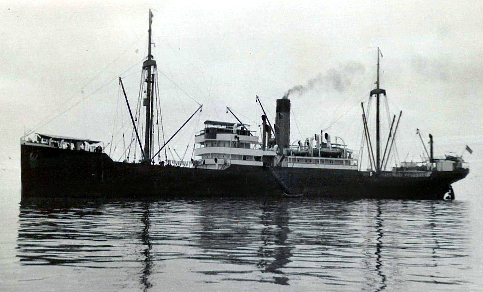 Freight steamship 'Porta II' of the Minden-class.